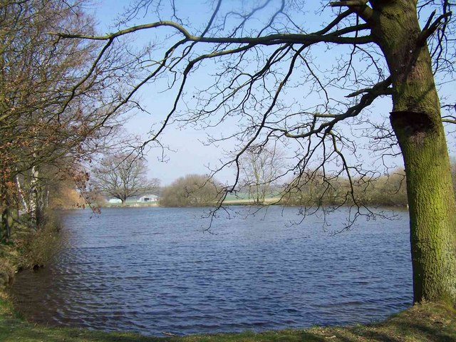 Lake, Teddesley Park Although the Lake is in SJ9515, it was taken from SJ9514